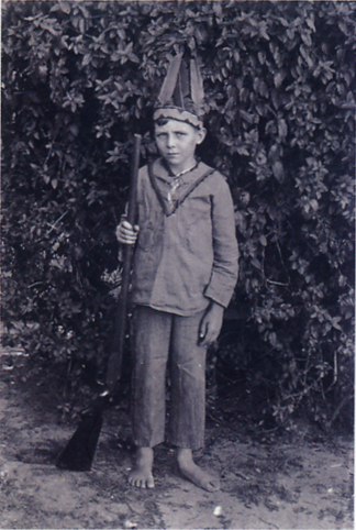 Photograph of Robert E. Howard at about eight years of age dressed as a native american.